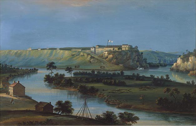 Fort Snelling confluence of the Mississippi and Minnesota RIvers Art Collection, Watercolor 1844 Location no. AV1988.45.348 Negative no. 276